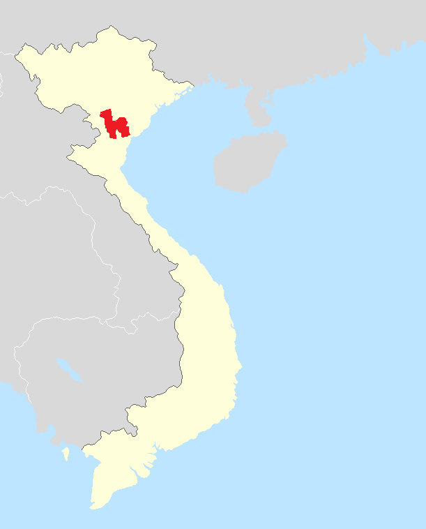 Range map of Trachypithecus delacouri. Based on: Lee E. Harding: Trachypithecus delacouri. In: Mammalian Species 2011, Nr. 43, S. 118-128.